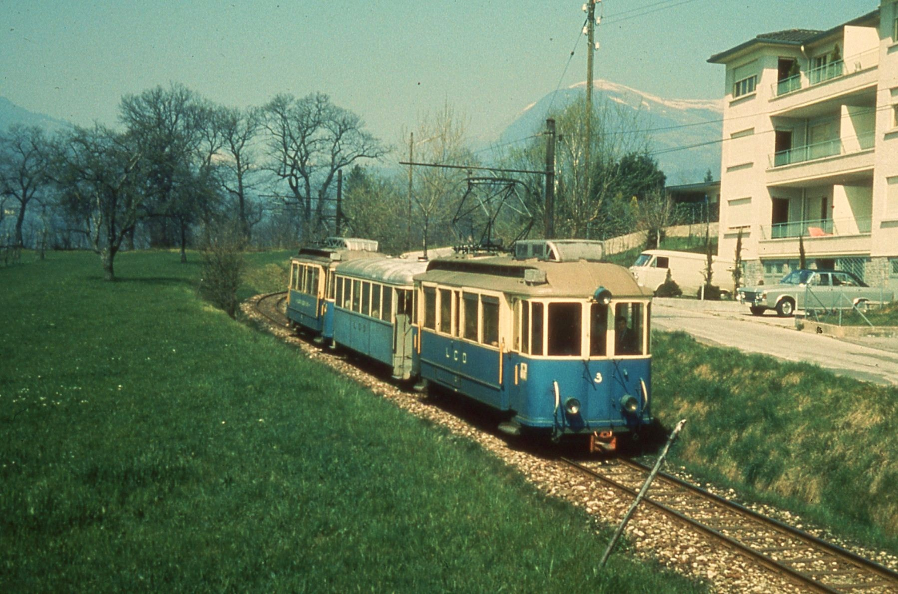 Train of the Lugano-Cadro-Dino light rail line, in Ticino, Switzerland